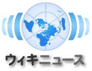 Proposed logo for the upcoming Japanese Wikinews